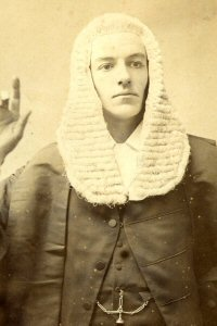 Hugh Enes Blackmore, Photograph taken in 1893